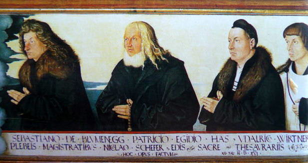 Hans Baldung: High altar of Freiburg Minster; Die Münsterpfleger